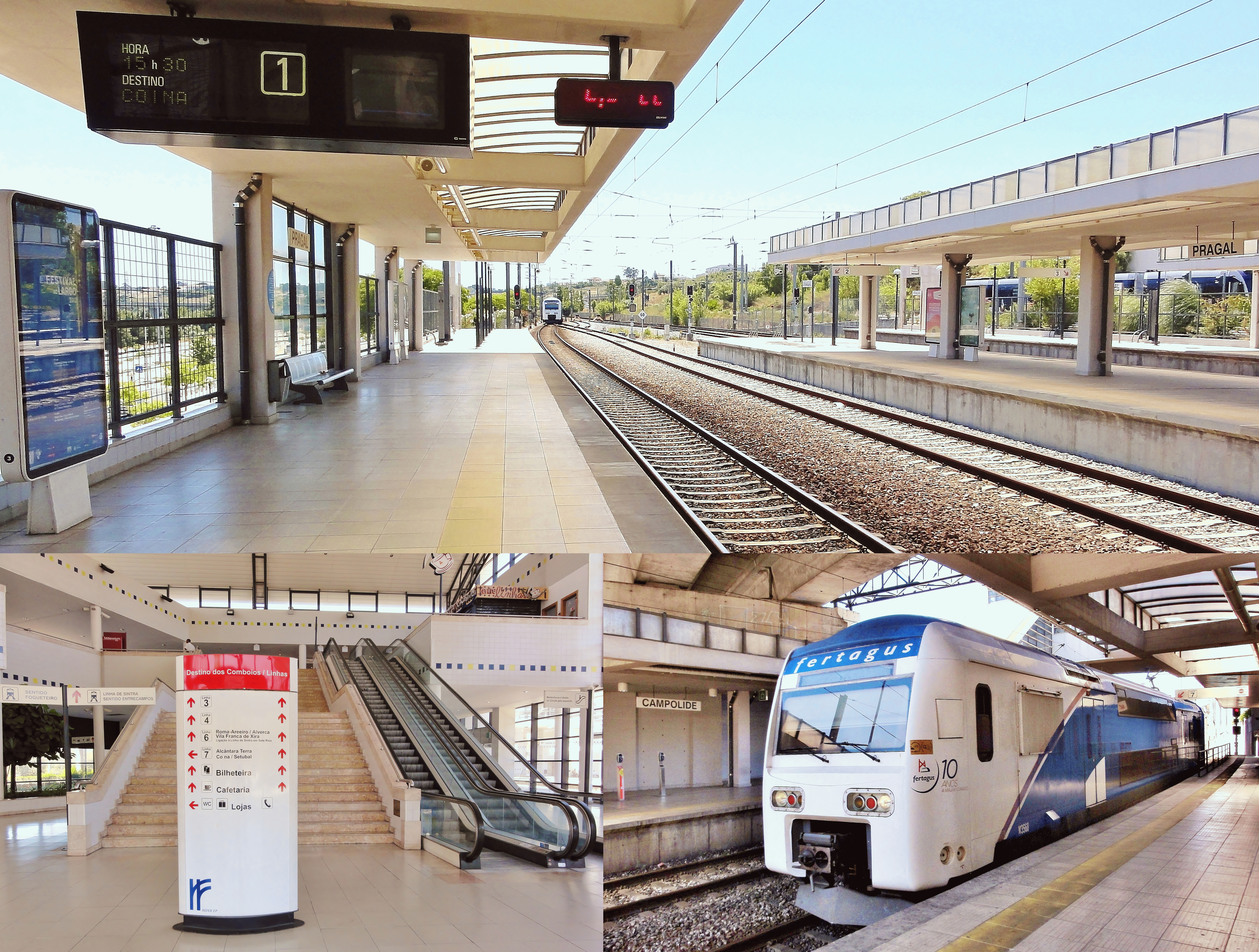 Railway to crossing over the River Tagus at Lisbon by the 25th April Bridge